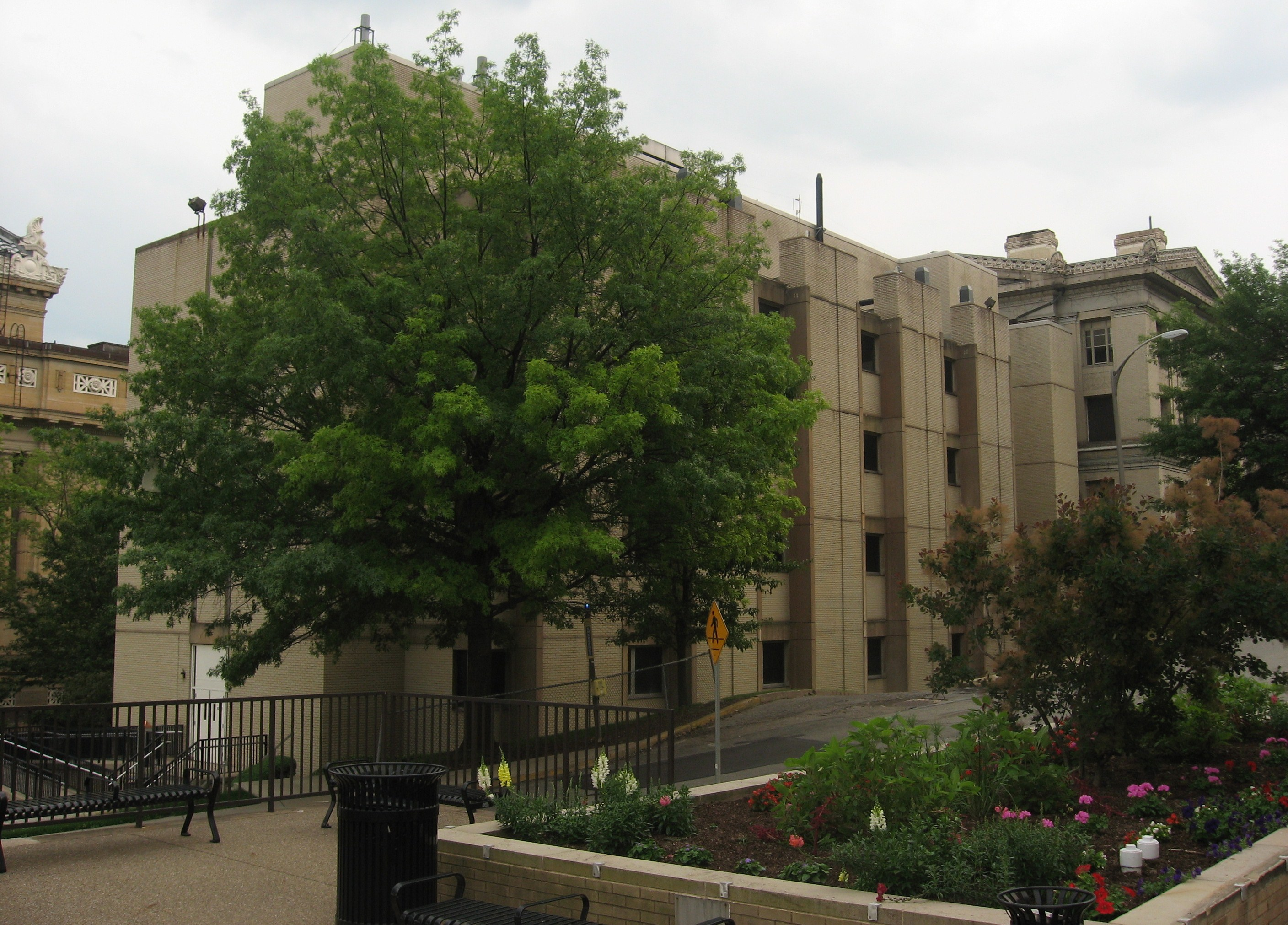 Rear view of the Space Research Coordination Center at University of Pittsburgh 40°26′43.4″N 79°57′26″W / 40.445389°N 79.95722°W